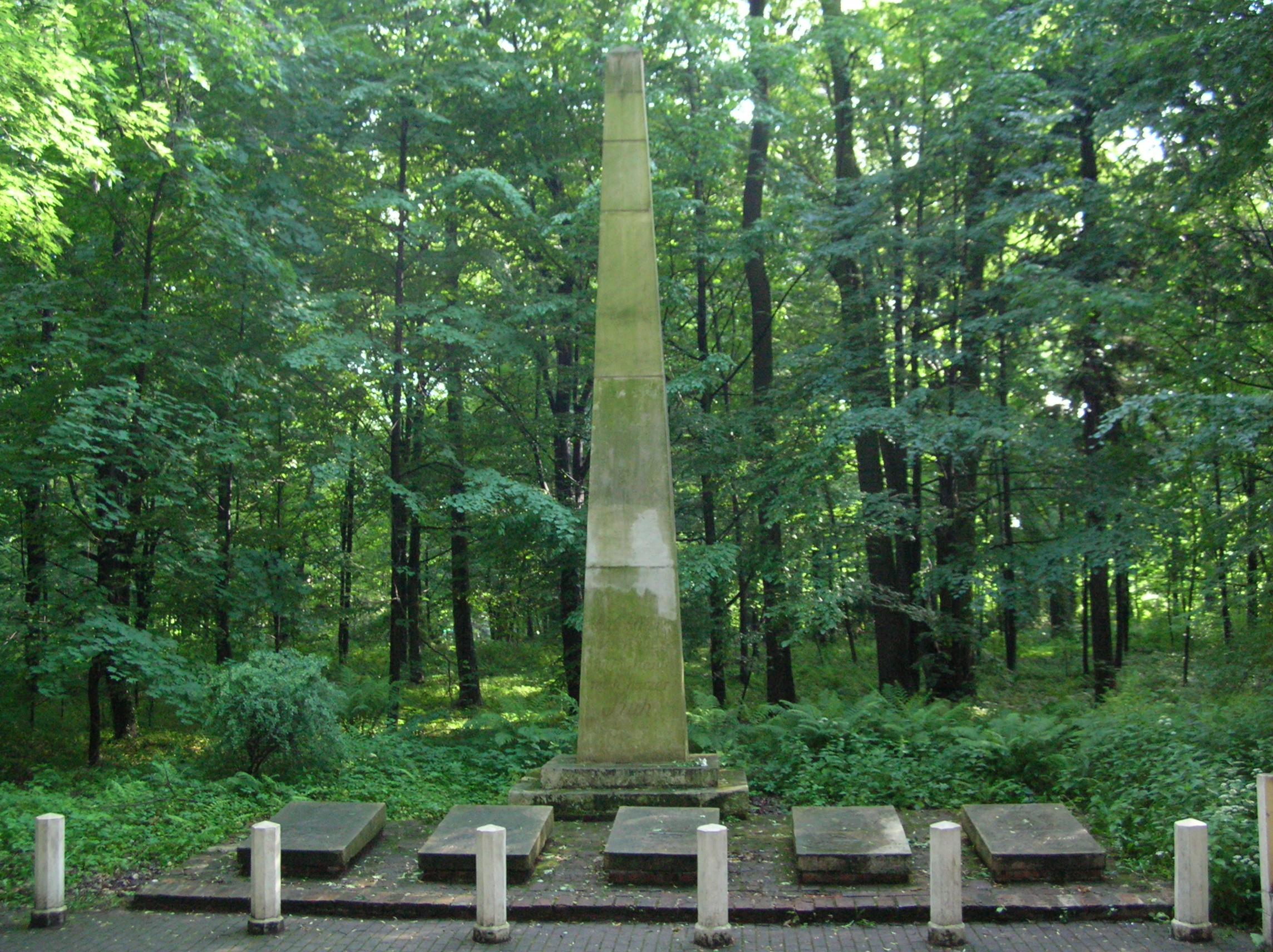 Tombs of Anhalt-Köthen family, Pszczyna